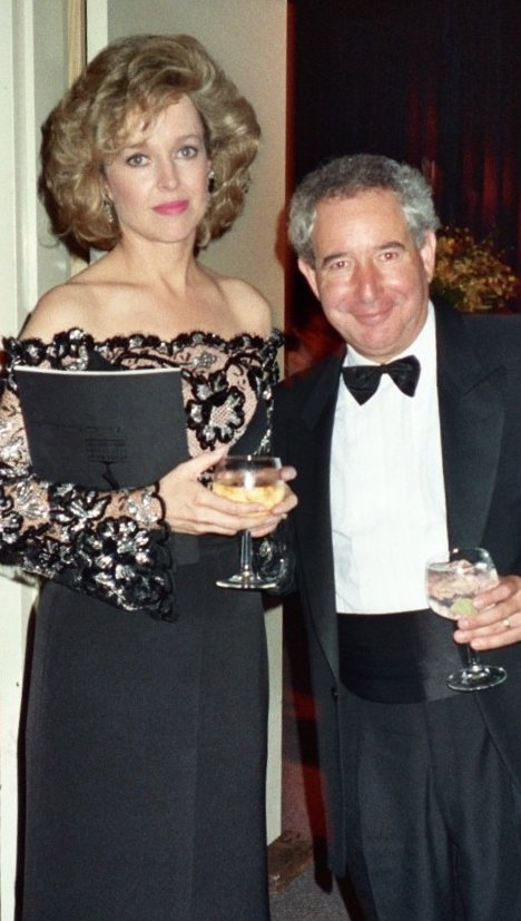 1989 Emmy Awards NOTE: Permission granted to copy, publish, broadcast or post any of my photos, but please credit "photo by Alan Light" if you can. Thanks. Scanned from the original 35MM film negative.